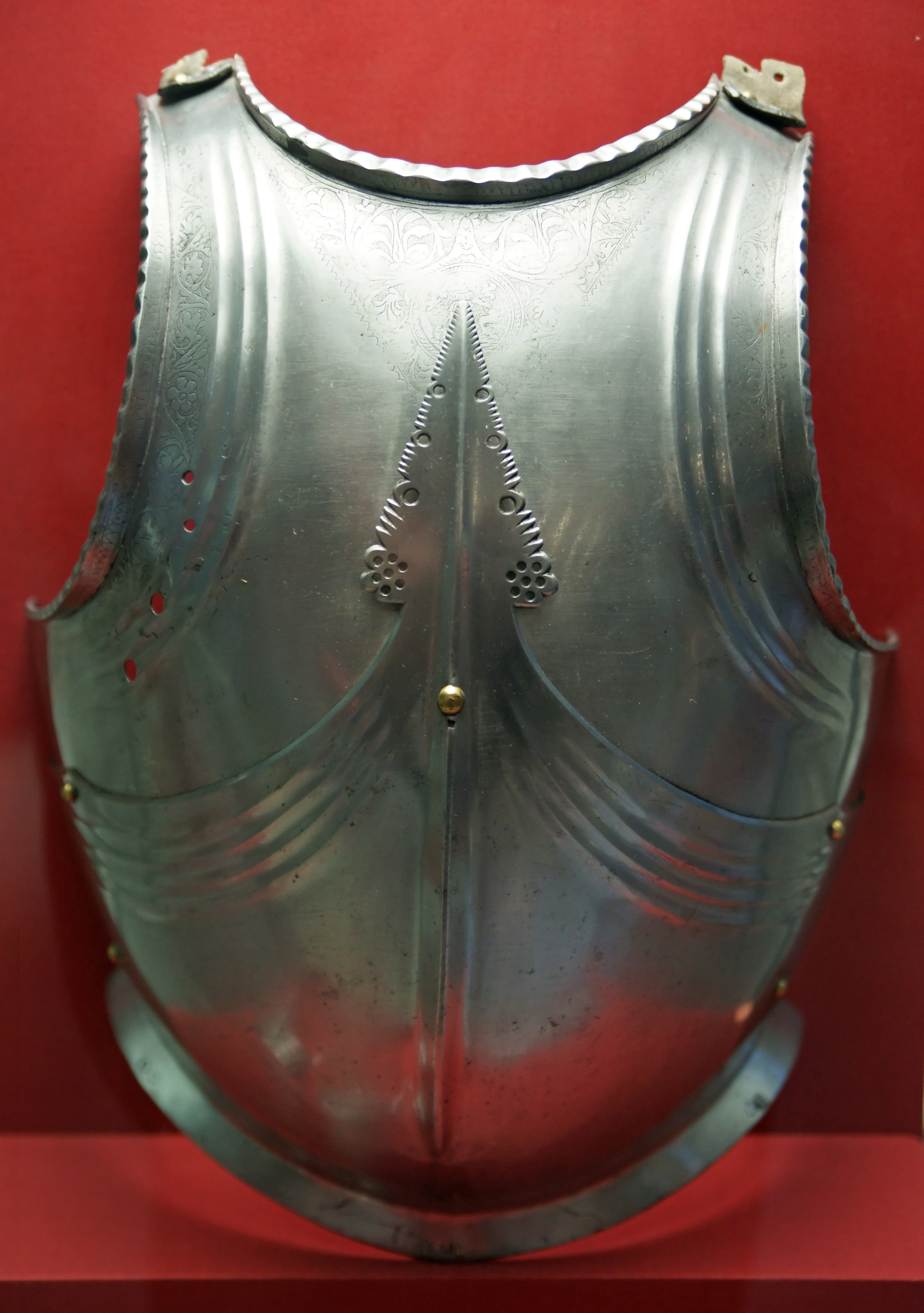 Shifting breastplate attributed to Bartolomeo Colleoni (1400-1475), but more likely produced around 1480-90.